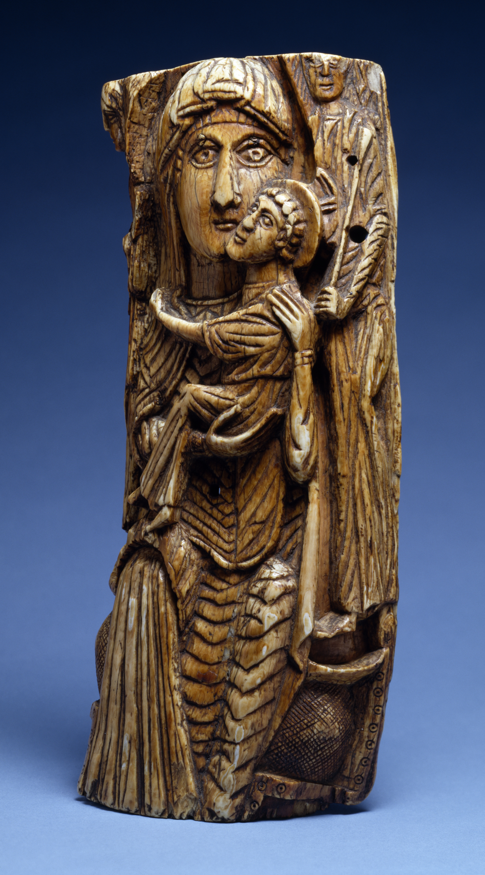 This unusually large ivory carving, its shape corresponding to the shape of a tusk, shows the Christ Child embracing his mother in a pose of tender intimacy. It is one of the earliest examples of what in later Byzantine times was called Eleousa, or "Virgin of Tenderness." The relief was likely to have been used for private devotion, in either a monastic or domestic setting, as an icon (Greek for "image"). Especially striking and typical of the early medieval period in Christian Egypt are the Virgin's large head, fixed gaze, and angular drapery.